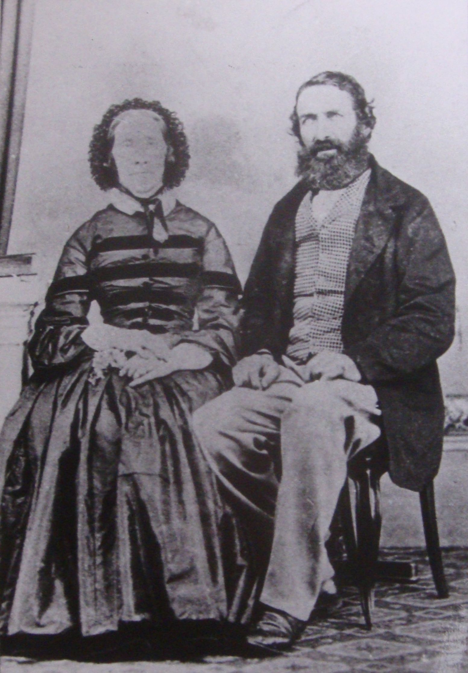 George Hempleman with his second wife; photo taken at Canterbury Museum. Photo caption reads: "Captain George Hempleman and his second wife, Elisabeth, of Peraki, Banks Peninsula" (note spelling as Elisabeth as per caption, but on her grave stone she is spelled Elizabeth